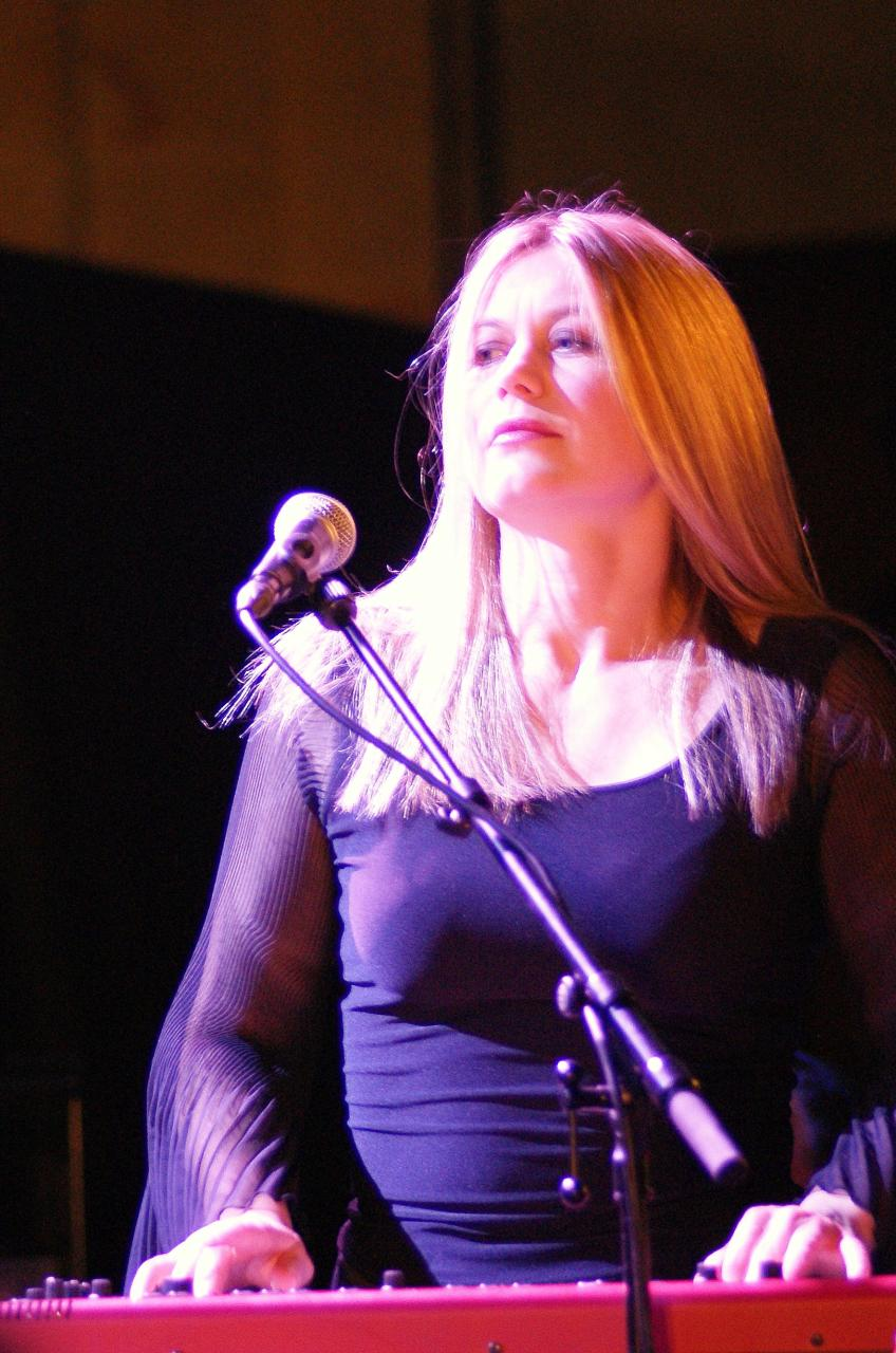 Live @ Dom Church, Utrecht. Astrid Williamson, keyboards.